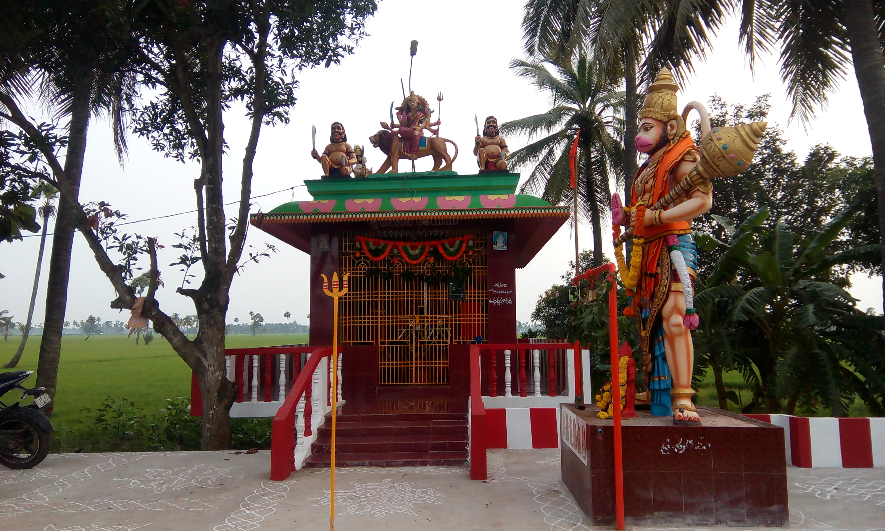 Sri Durga Temple of Suryaraopalem of Westgodavari District of Andhrapradesh